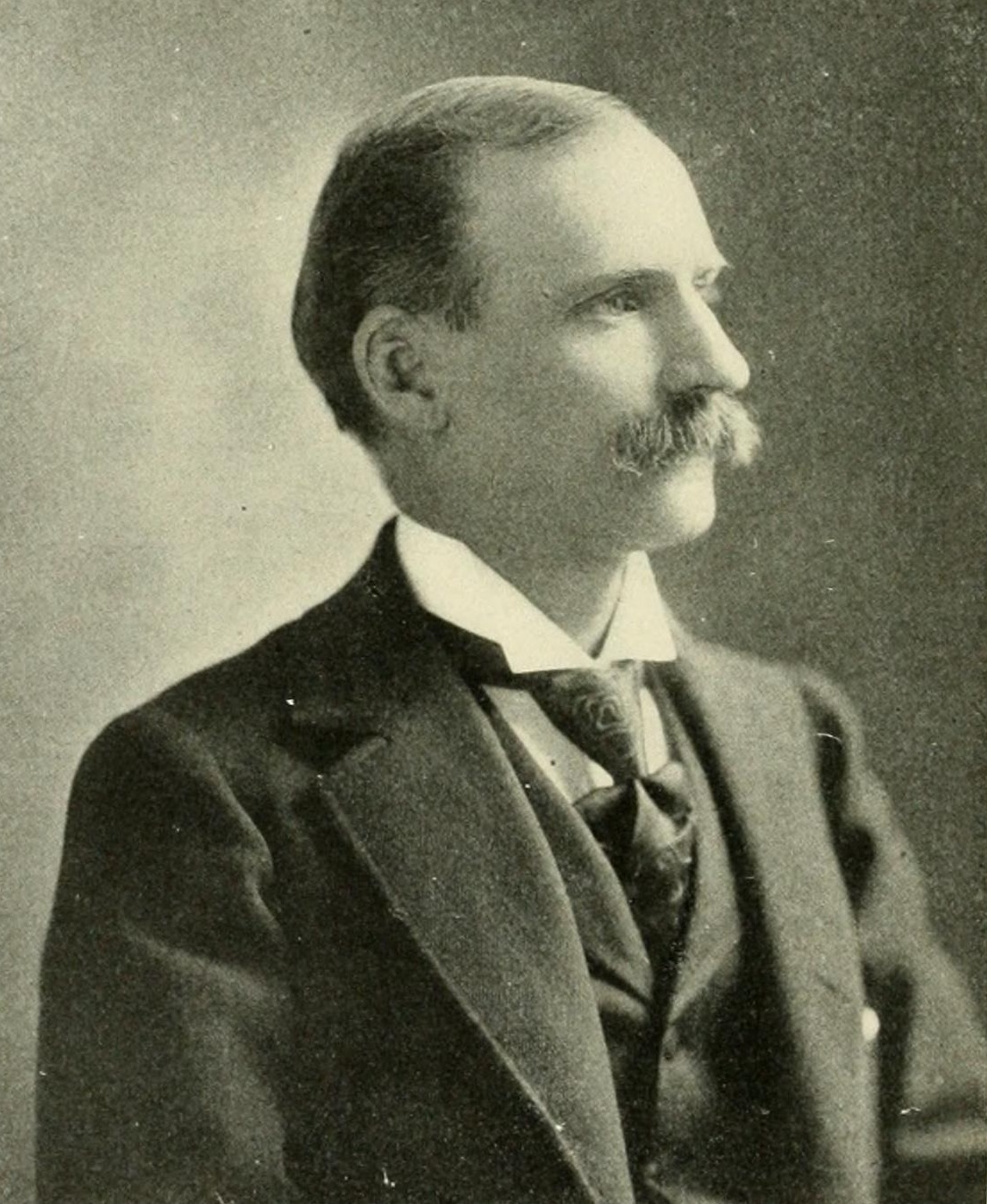 William S. Mesick (Michigan Congressman)